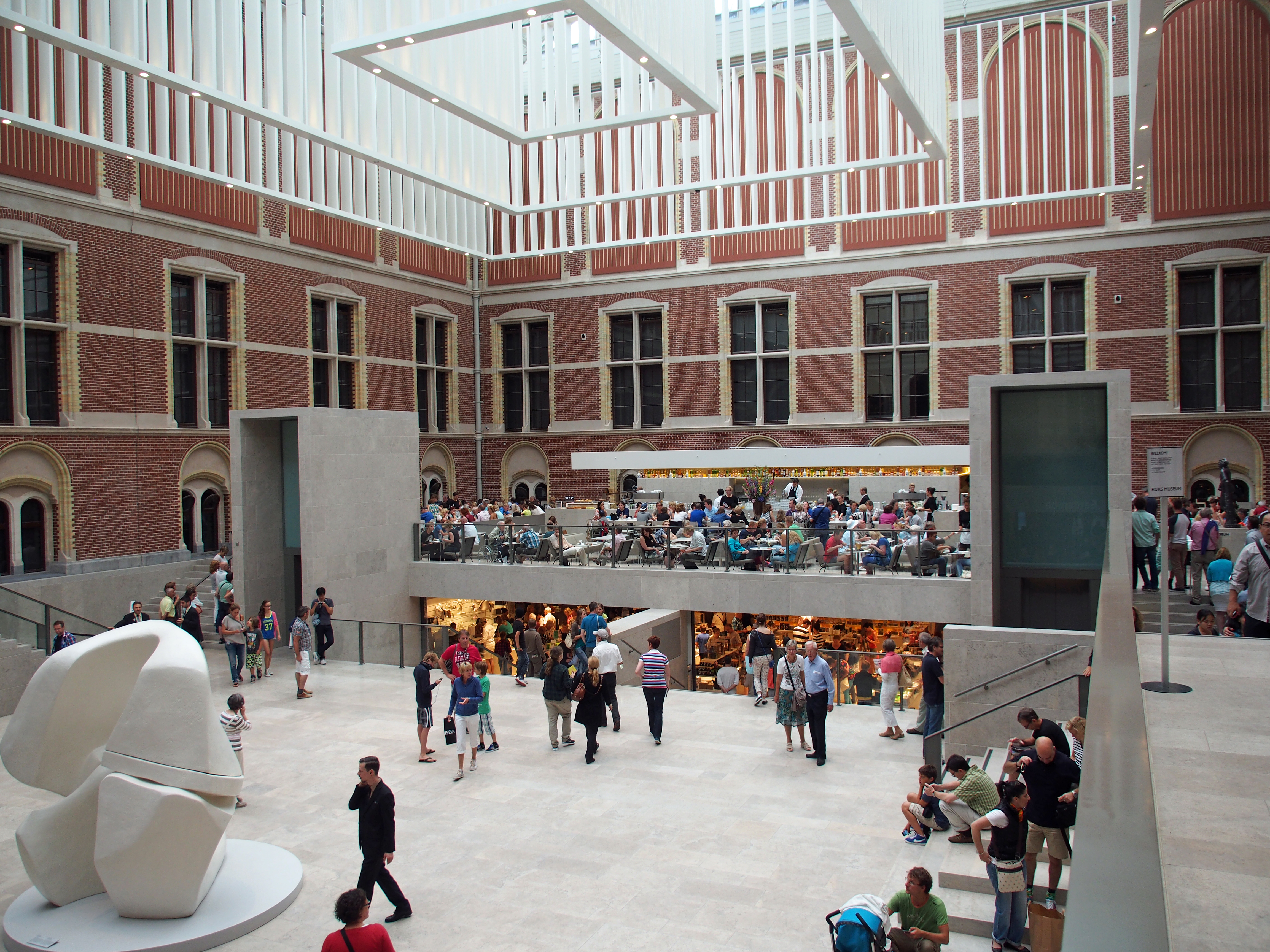 Rijksmuseum Amsterdam, Atrium